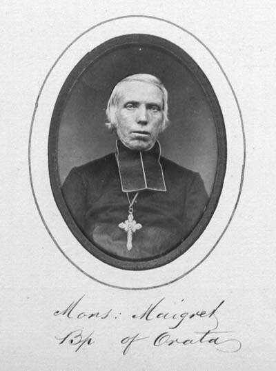 French priest Louis-Desire Maigret served the Sandwich Islands mission as bishop from 1847 until his death in 1882.